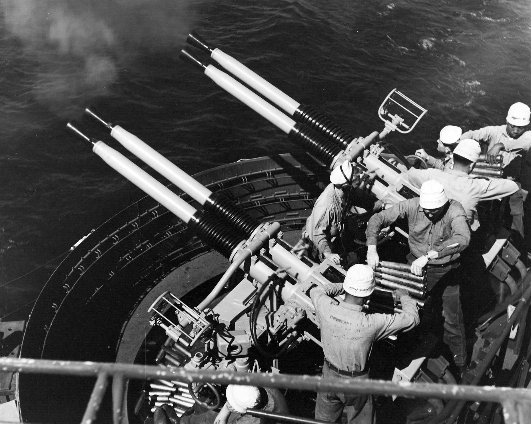 A U.S. Navy gun crew conducts practice firing of 40 mm guns on board the escort carrier USS Badoeng Strait (CVE-116).